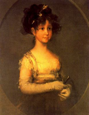 Maria Isabella of Spain (1789-1848)]